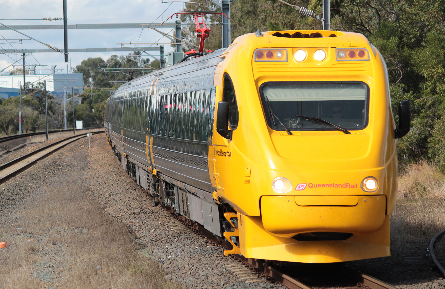 ETT 303 and 304 Sunshine.